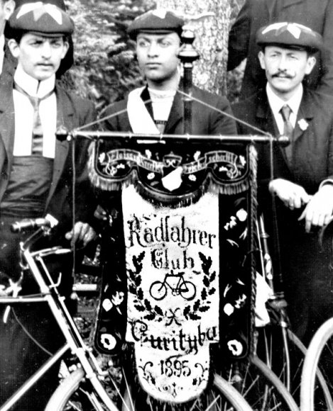 Bicycle Club of the City of Curitiba - 1895